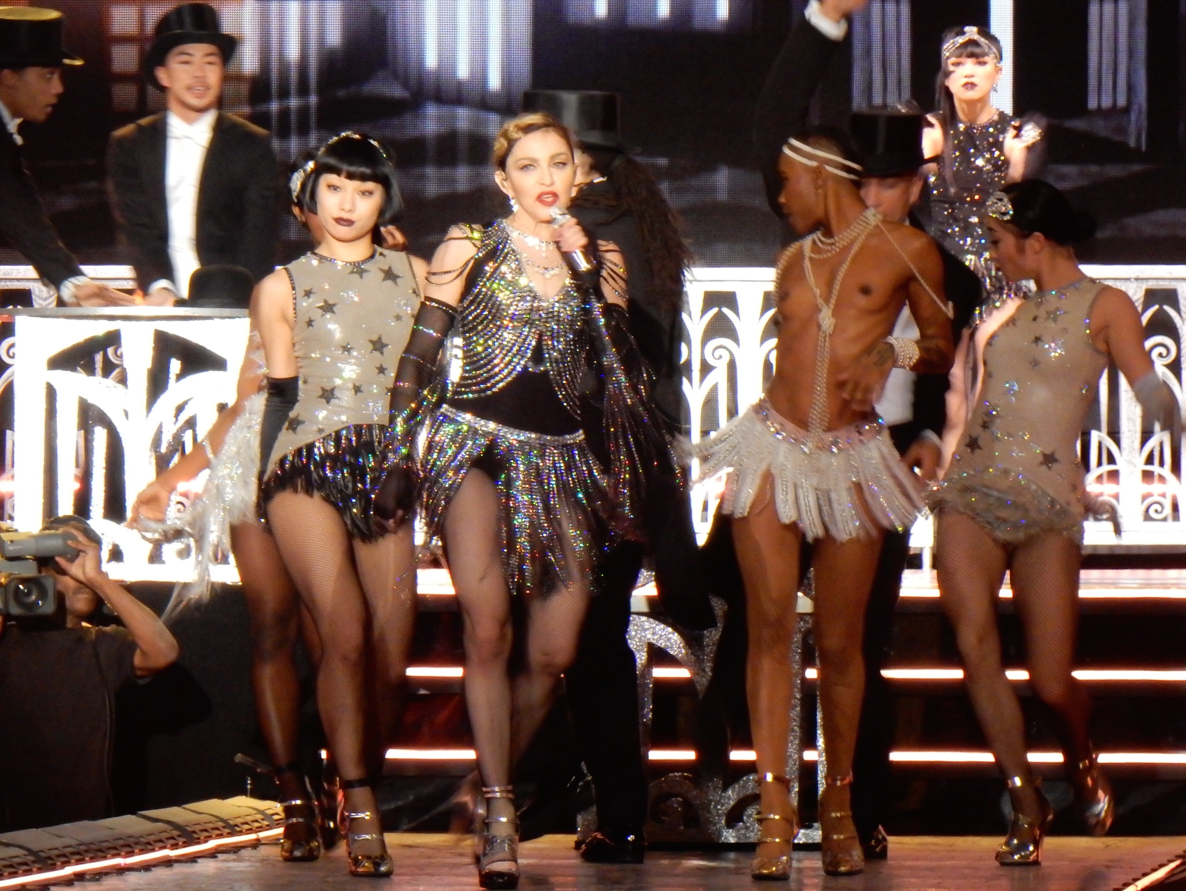 Madonna - Rebel Heart Tour 2015 - Paris 2